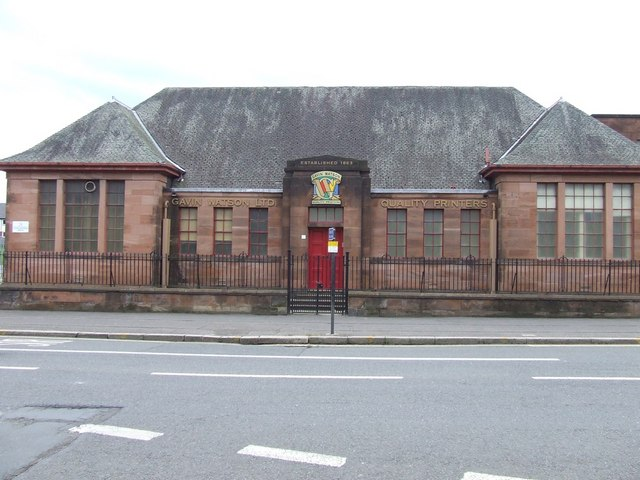 Old Askit Laboratories, Saracen Street, Glasgow Custom built building for Askit Laboratories.